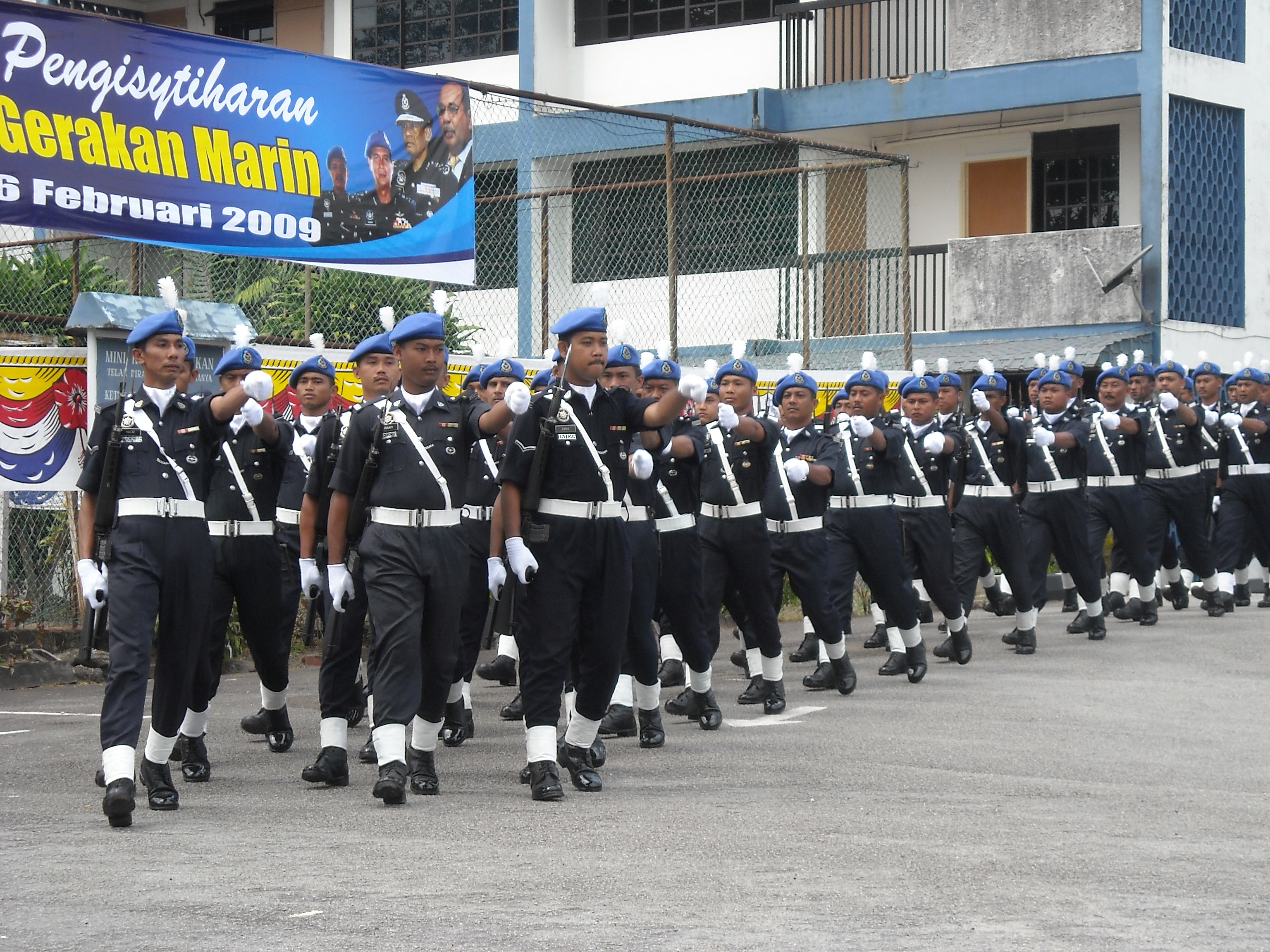 The parade of declaration of Marine Police. Taken by me at Marine Police Training Centre, Tampoi, Johore Bahru, Johore. (RELEASED)